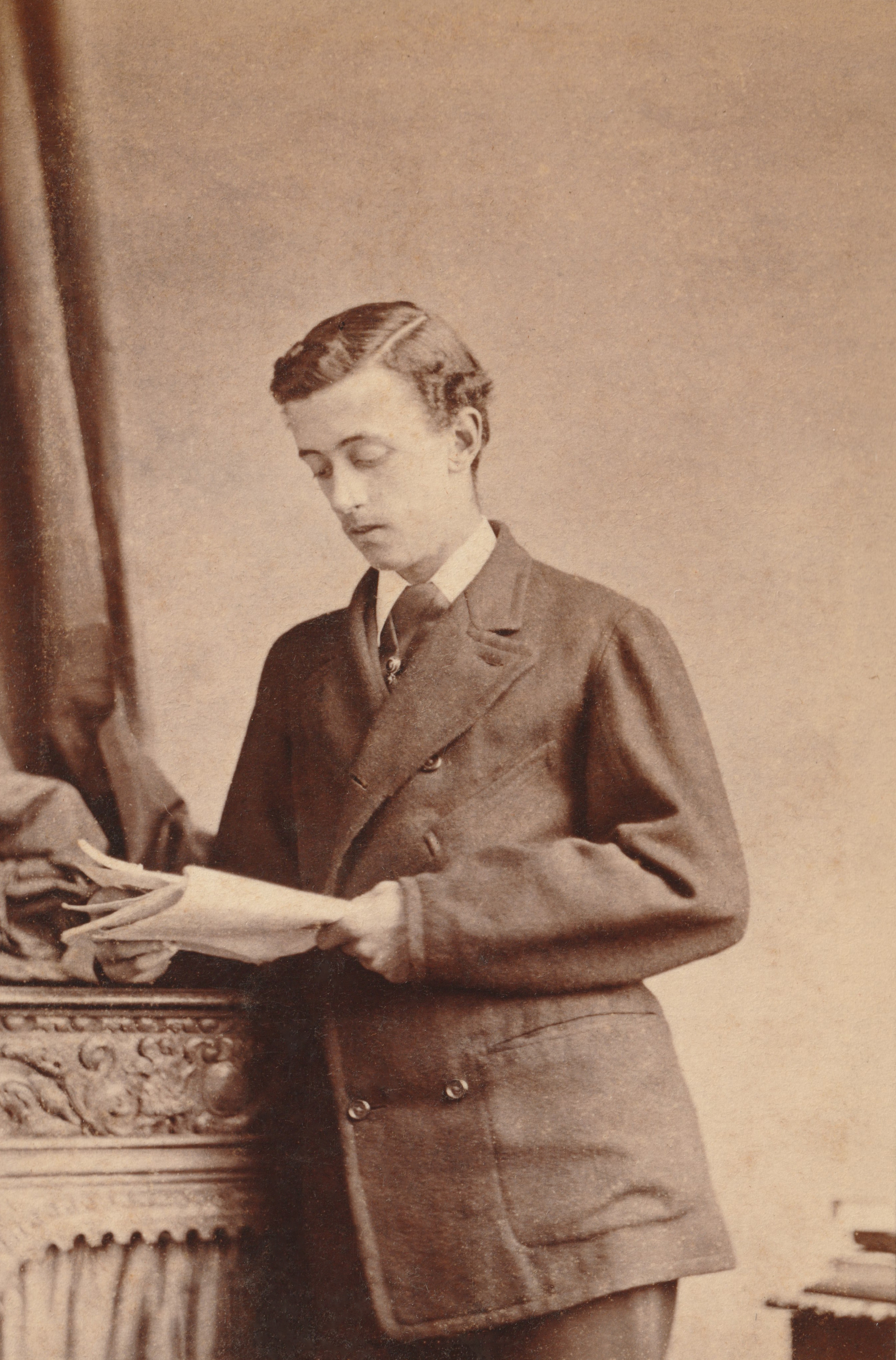 Albert Grey, photographed at Harrow